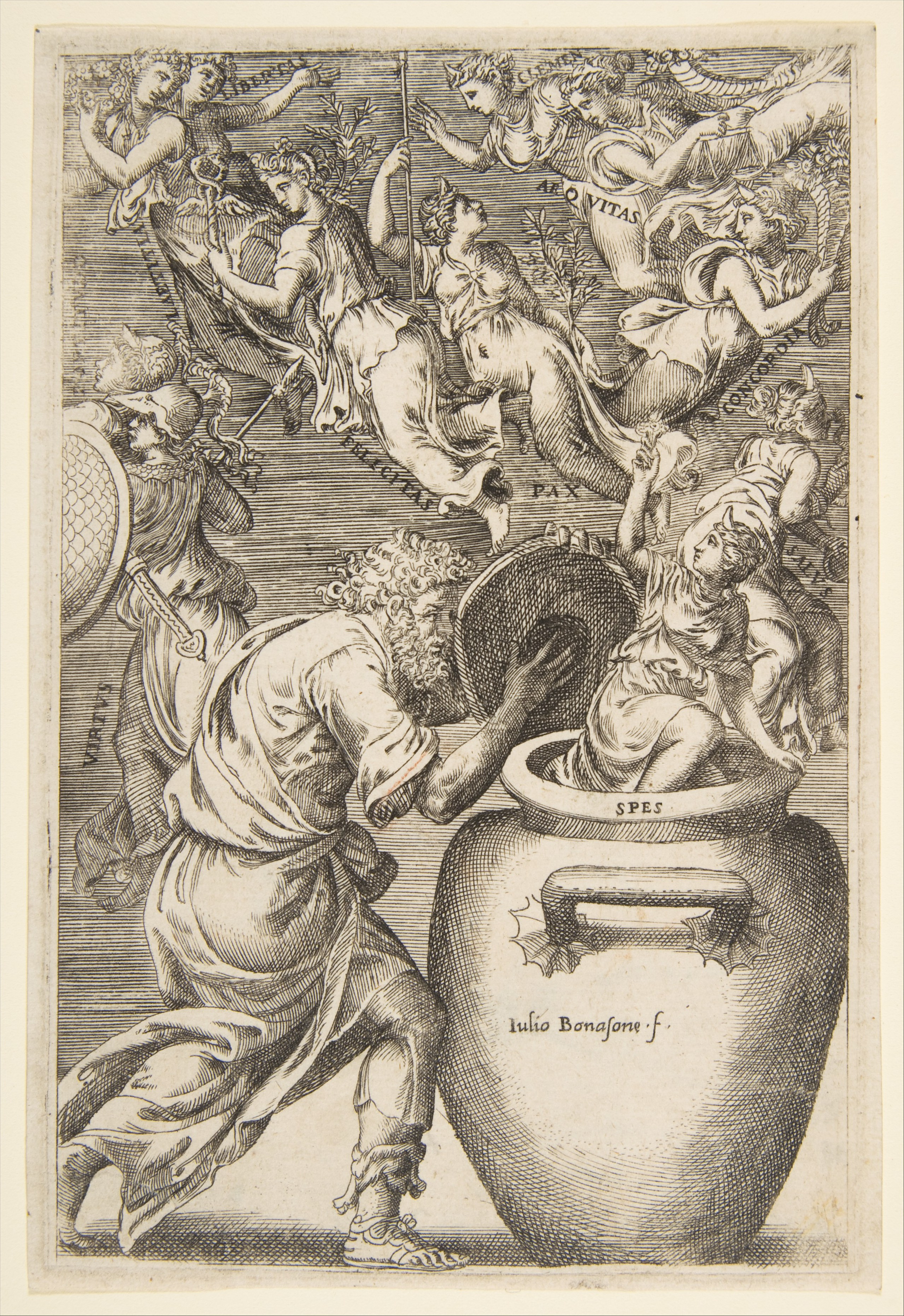 Print; Prints